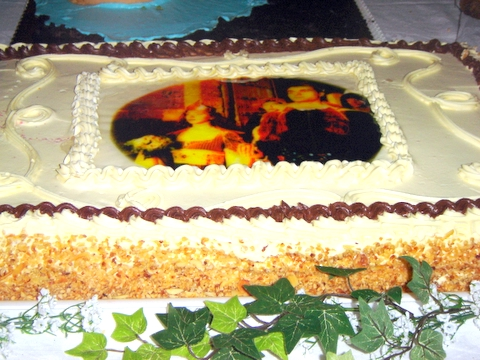 Desciption: Mary of Enghien's wedding - at Taranto, Italy Photographer: --Asia Date: 6.5.2006